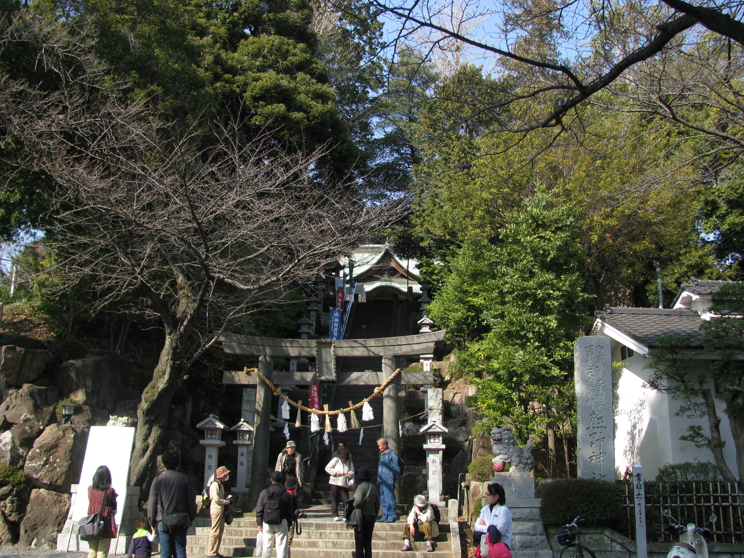 The Morooka Kumano jinja. This place is in Kōhoku-ku, Yokohama, Kanagawa Prefecture, Japan.